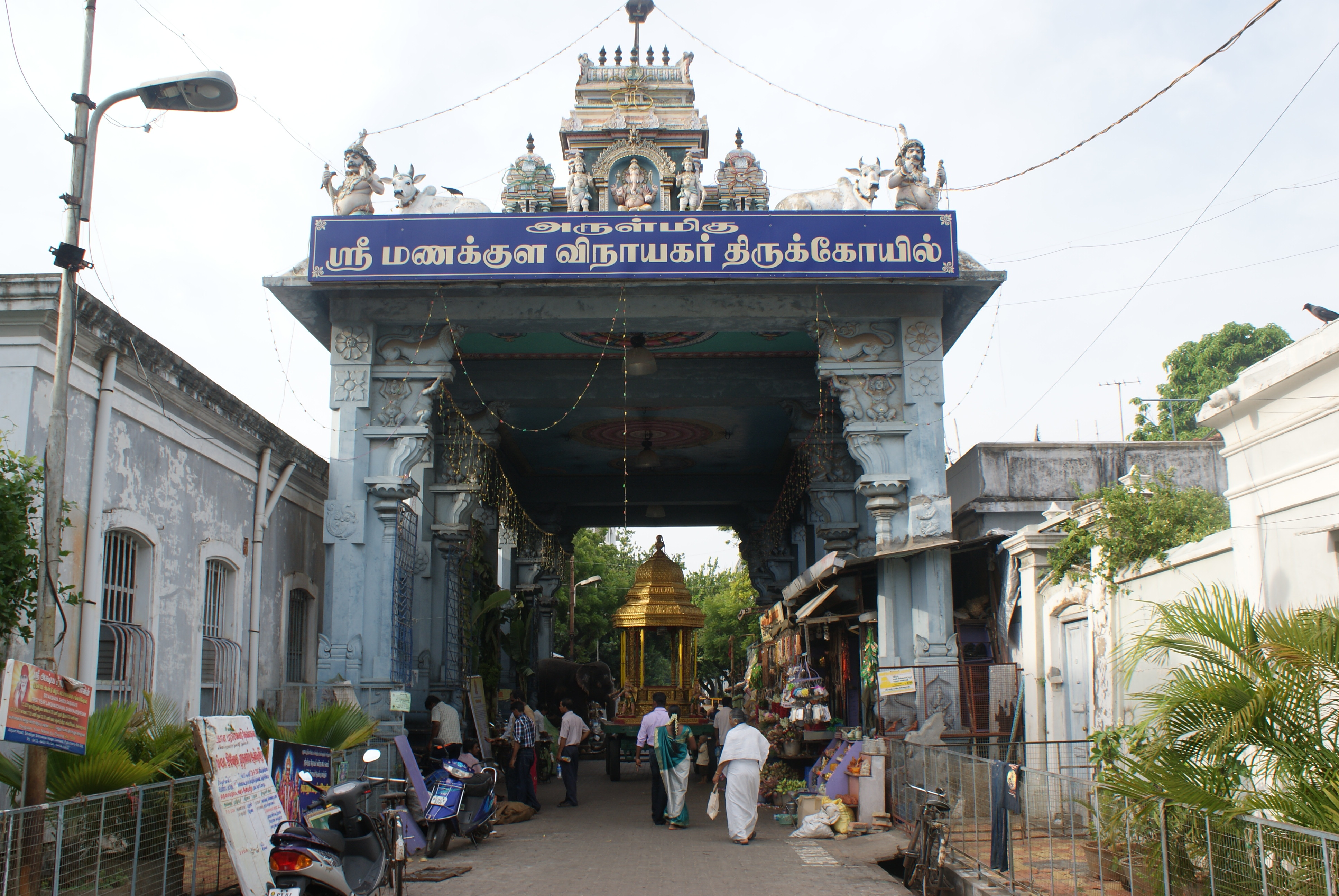 Entrance of the Manakula Vinayagar Temple in Puducherry (Pondicherry), India